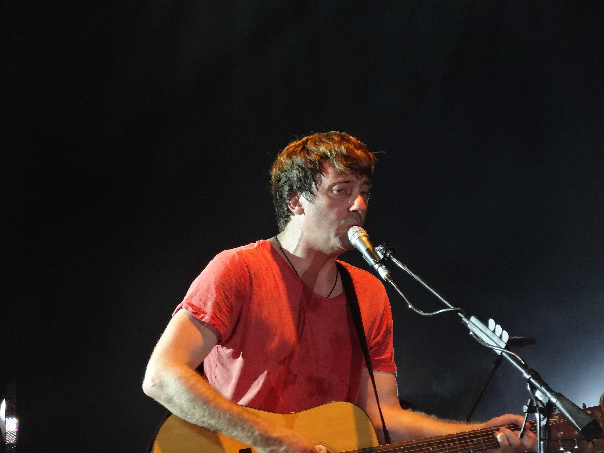 Graham Coxon 29.07.2013 live in Rome 2